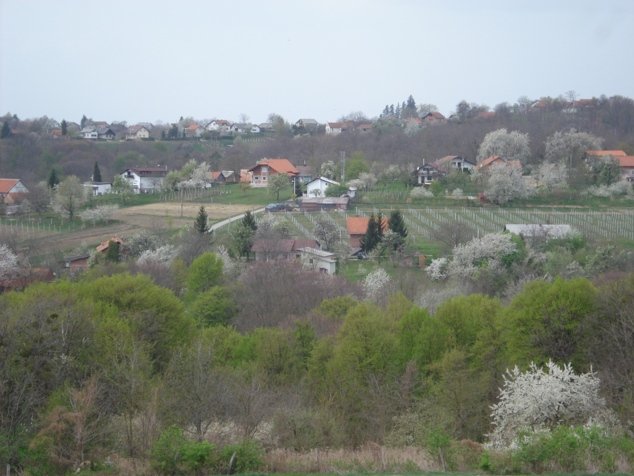 Blossoming panorama of Vučetinec village in Međimurje County, northern Croatia (April 2012).